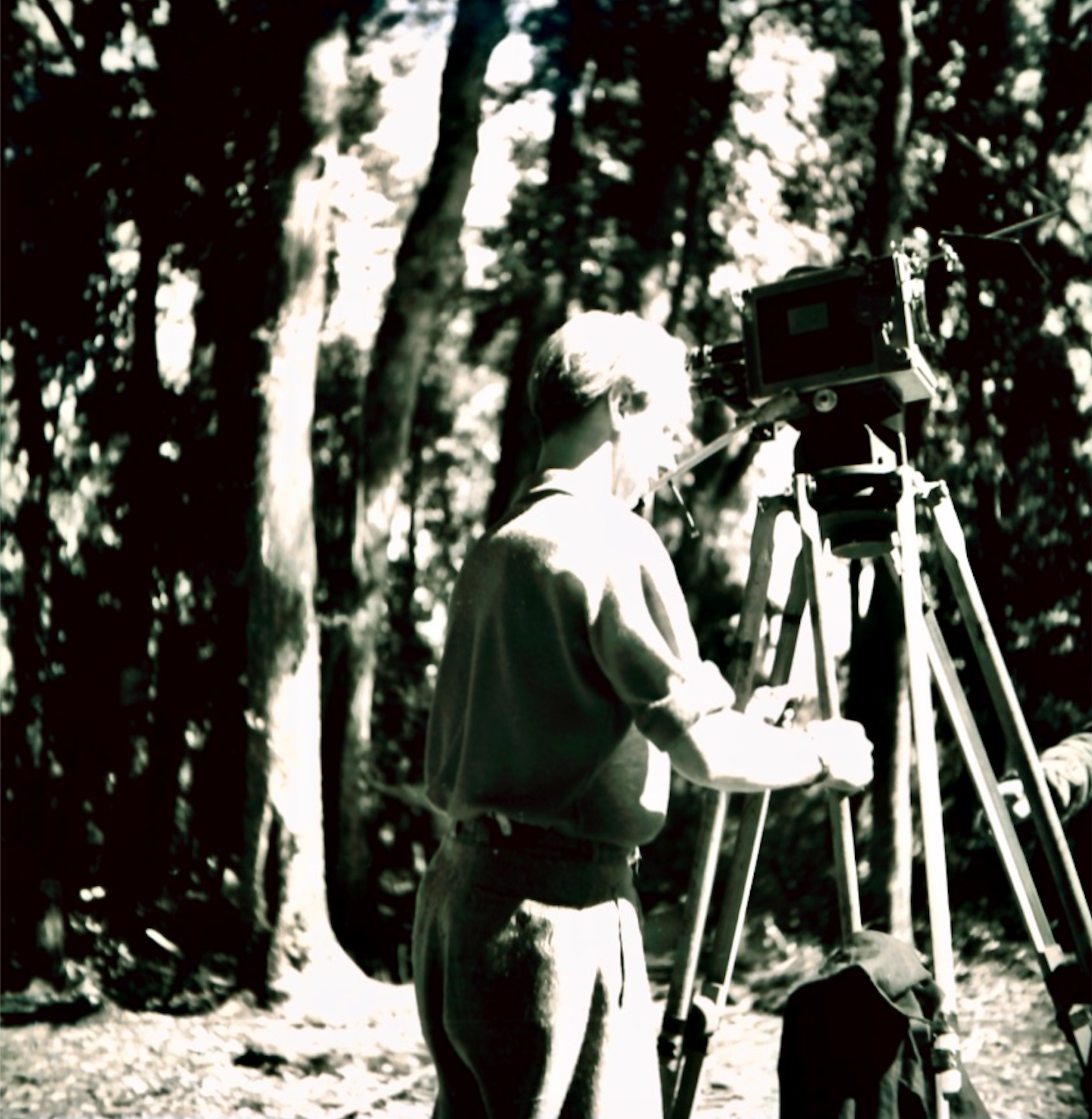 Arnold Ernst Fanck (1919–1994) as a camera assistant during the filming of the film "A Robinson - The Diary of a Sailor" in South America, which Goebbels ordered to rework by the studio into a propaganda film for the German Navy. This brought the film to the index of the Allied military governments in the occupation zones after the Second World War.